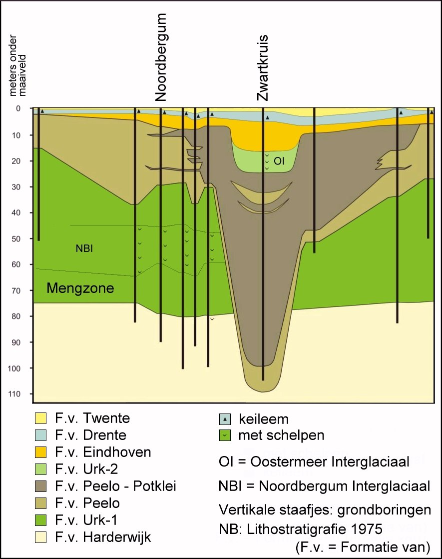 Glacial tunnelvalley; section at Noordbergum, the Netherlands